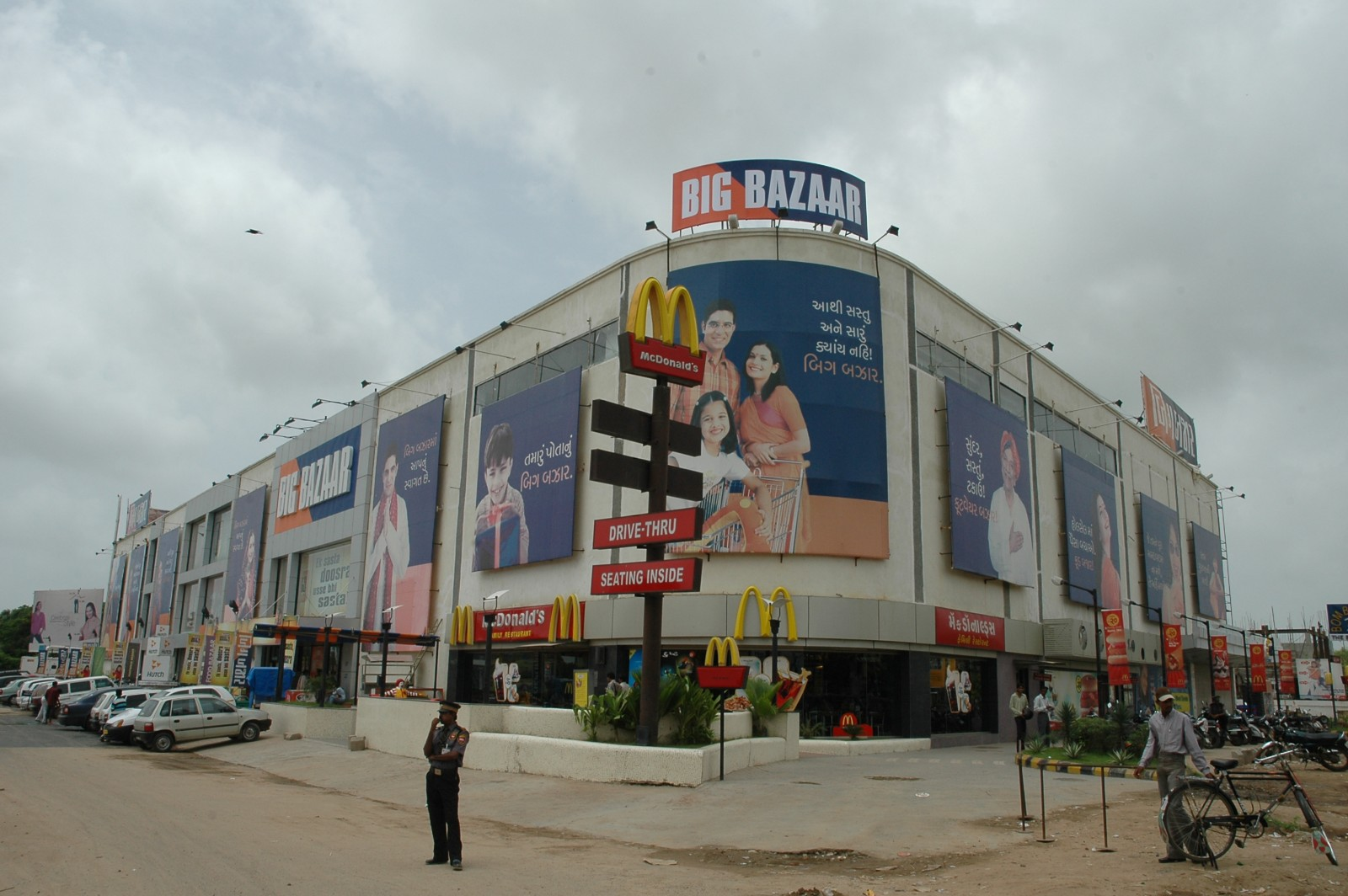 Another view of Big Bazaar